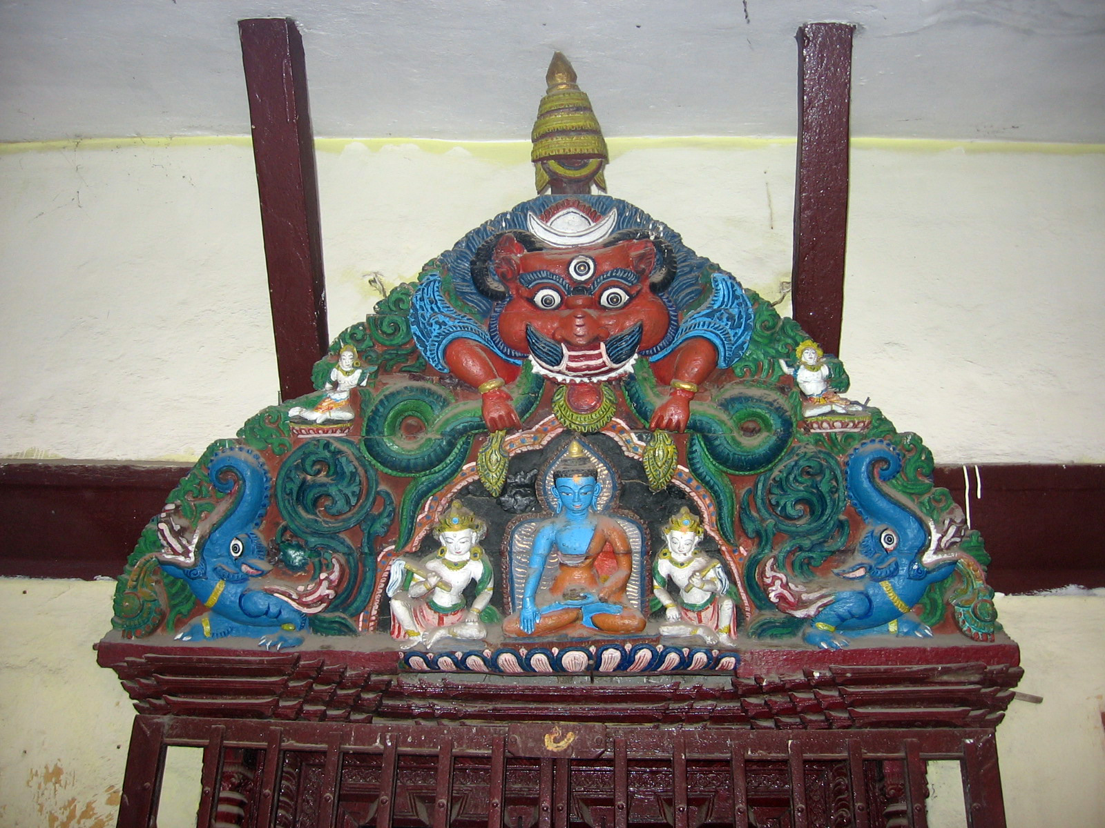 Carved wooden tympanum at Hwakha Baha, Kathmandu.